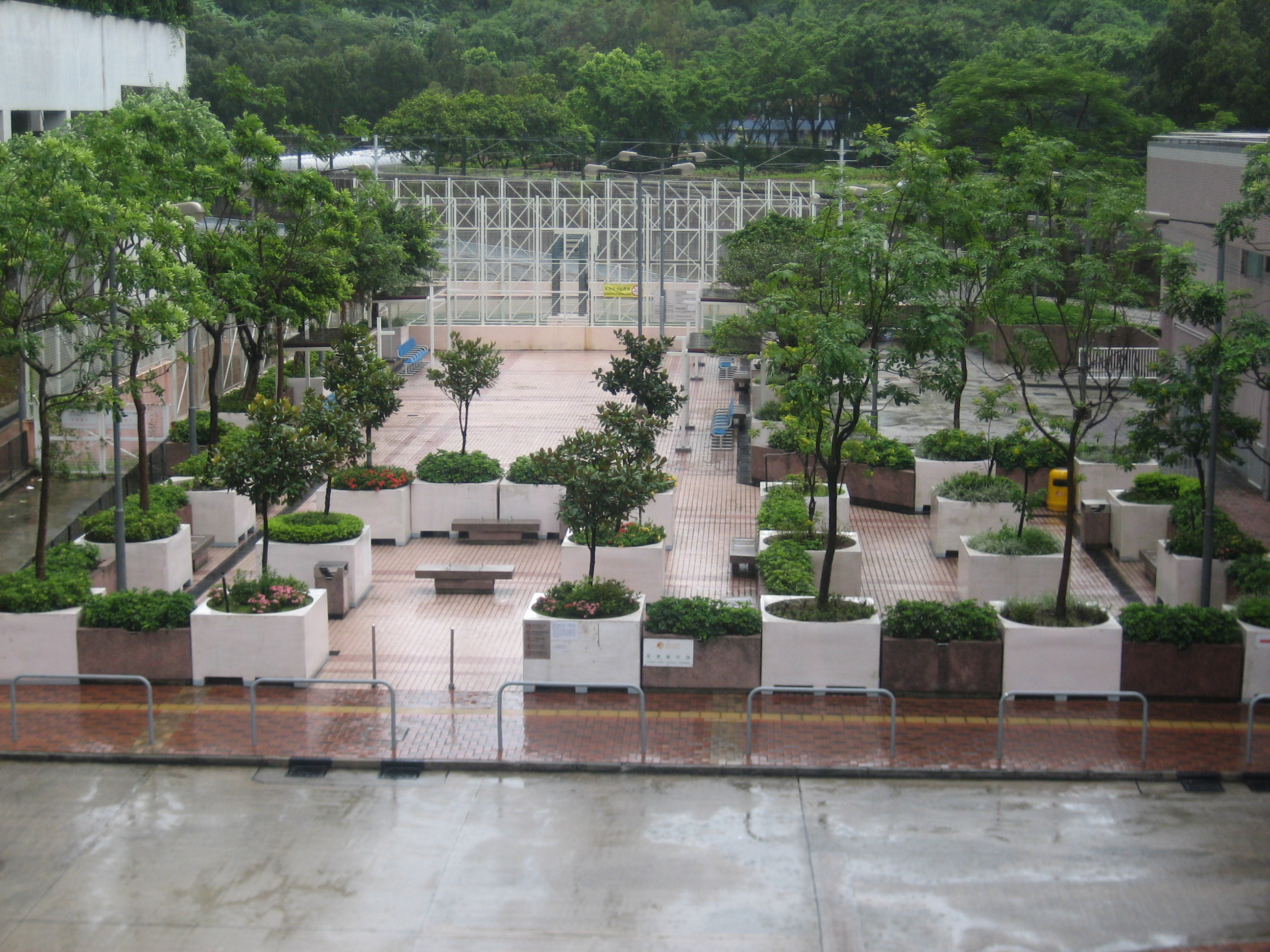 Tsuen King Circuit Garden